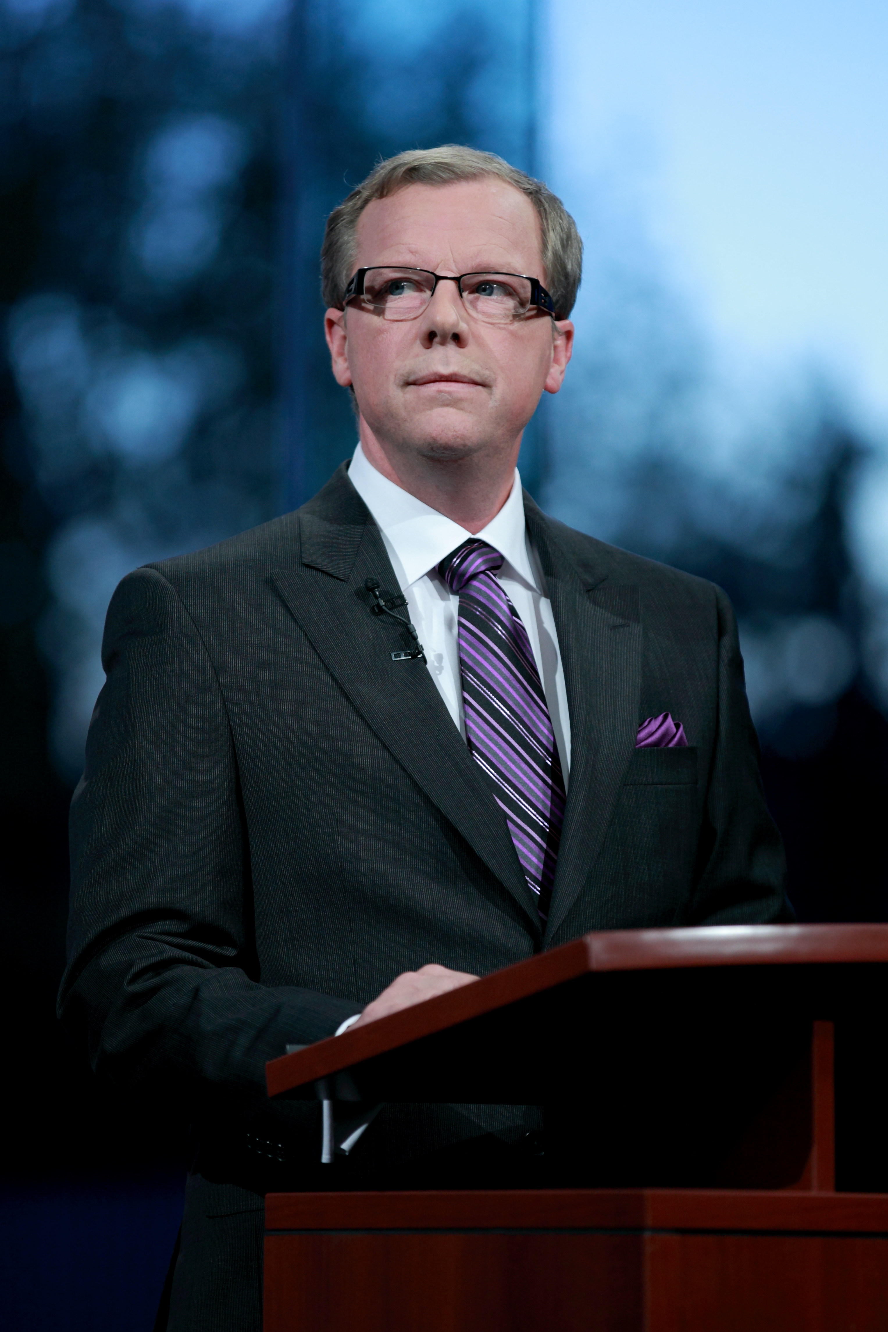 Brad Wall at the 2011 Leader's Debate